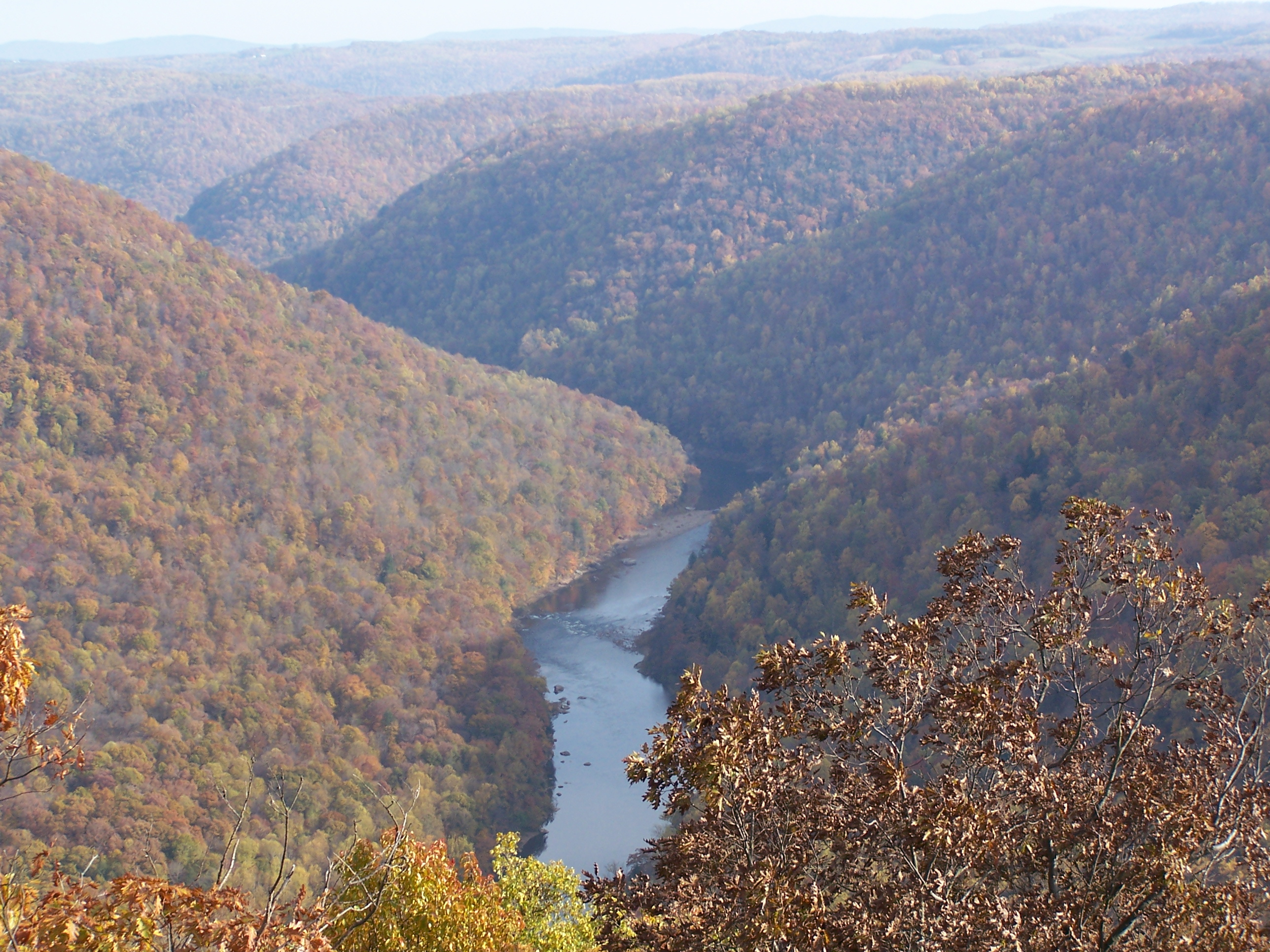 Cheat River overlook at Coopers Rock State Forest.